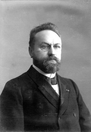 Herman Bavinck (1854-1921)